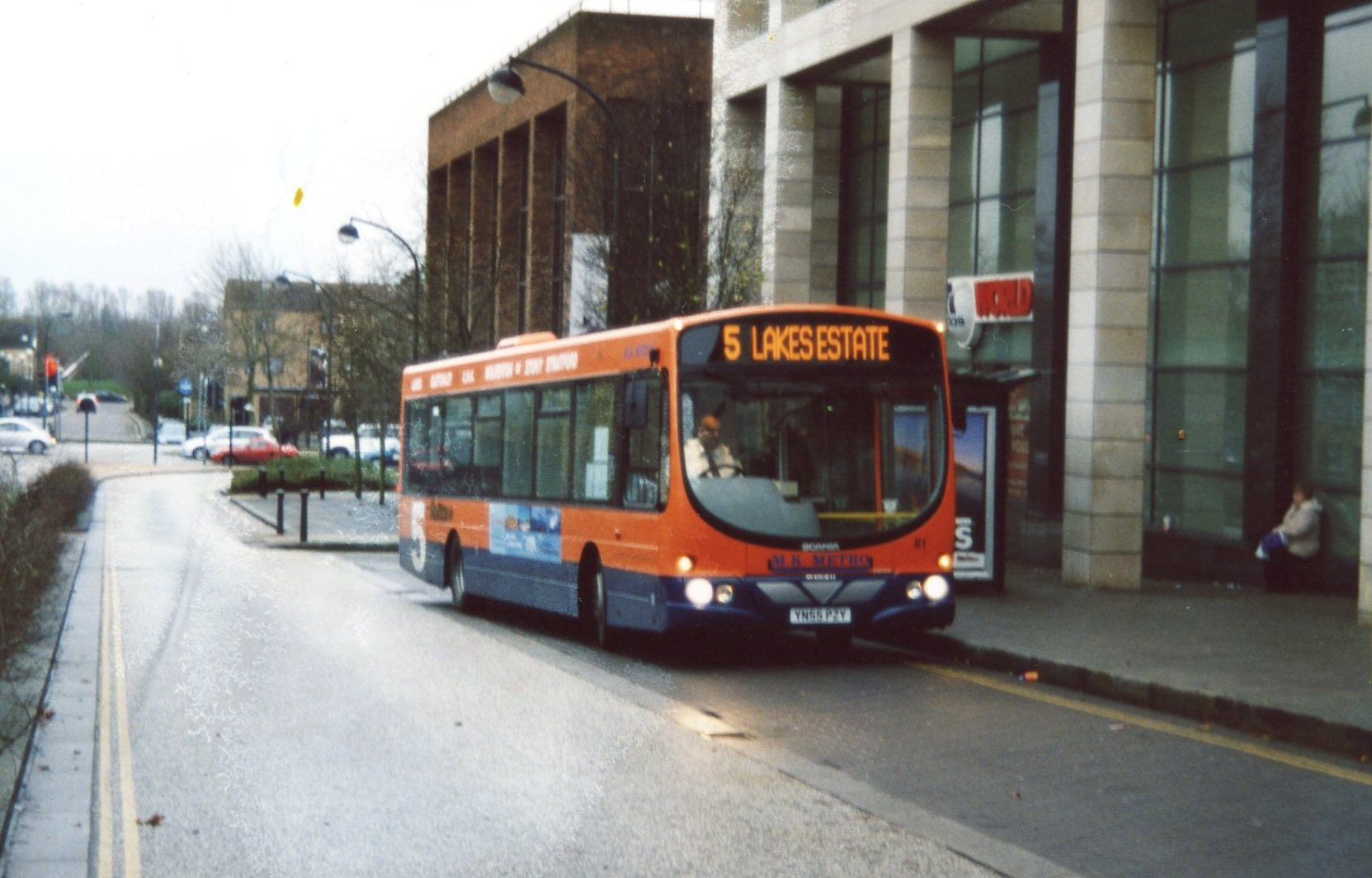 An MK Metro bus on route 5 in Milton Keynes, Buckinghamshire, in December 2006, shortly Arriva took over MK Metro. The bus is a Scania L94UB, registration mark YN55 PZY. It carries two fleet numbers: its old MK Metro number 81 and its new Arriva number 3621.